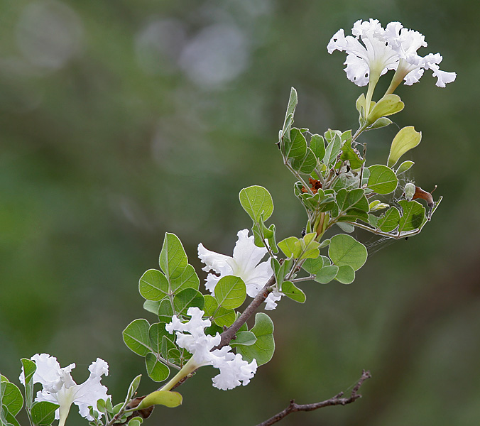 Dolichandrone falcata - Medhshingi • Hindi: Hawar • Marathi: मेढ़शिंगी Medhshingi, भेड़सींग Bhersing • Tamil: Kadalatti, Kaliyacha, Kattuvarucham • Malayalam: Attulottappala, Nirpponnalyam • Telugu: Chittiniruvoddi, Chittivoddi • Kannada: Godmurki, Muduvudure, Udure • Oriya: Mrigosingo • Sanskrit: Mesasrnga, Visanika - in Hyderabad, India.